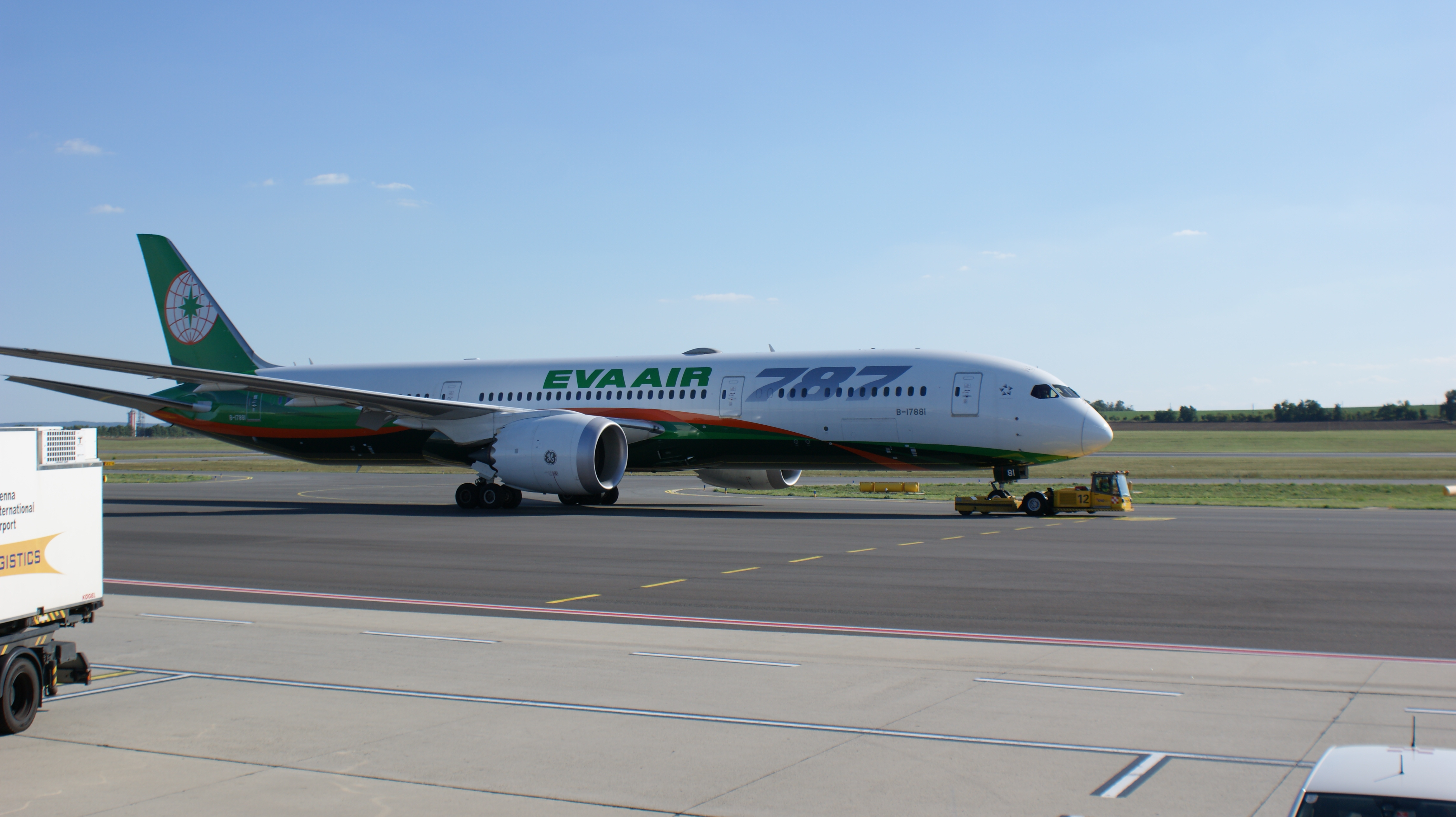 Vienna International Airport Schwechat in Vienna. Eva Air Airline, Airplane B-17881.